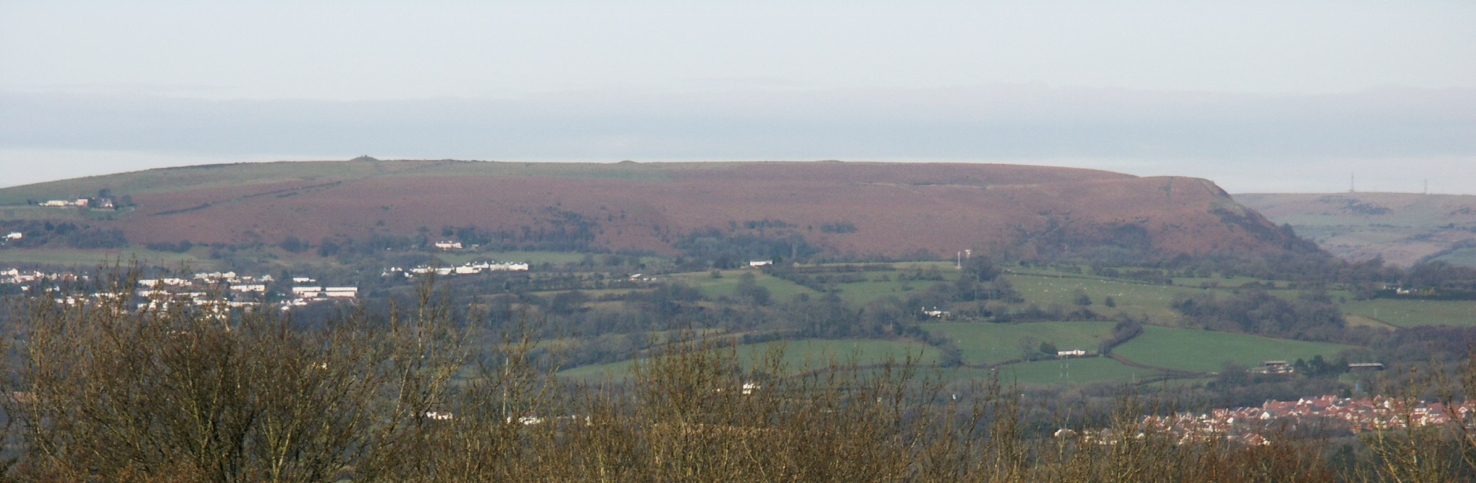 View of Mynydd y Garth